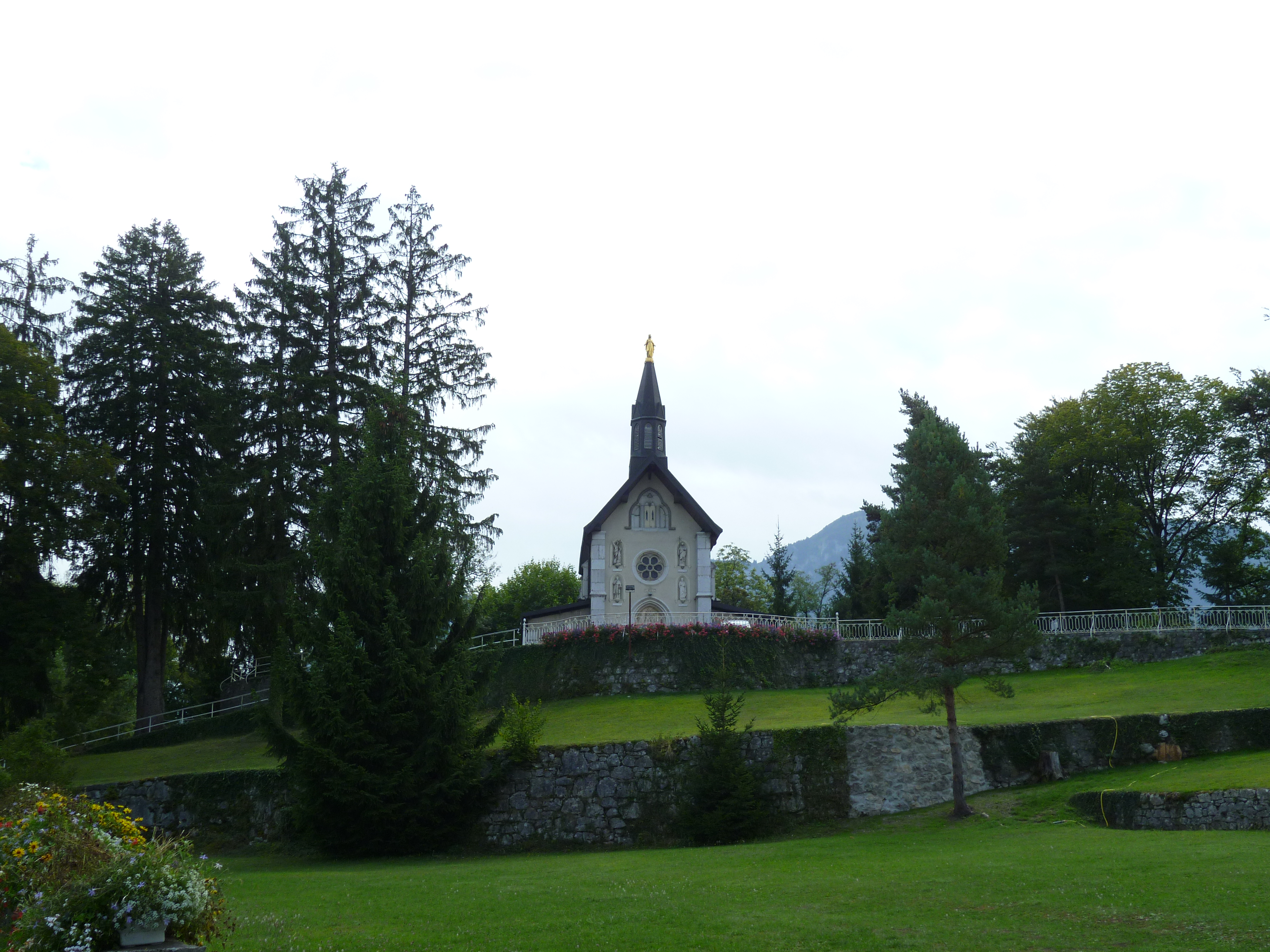 The Bénite Fontaine in La Roche-Sur-Foron, Haute-Savoie, France